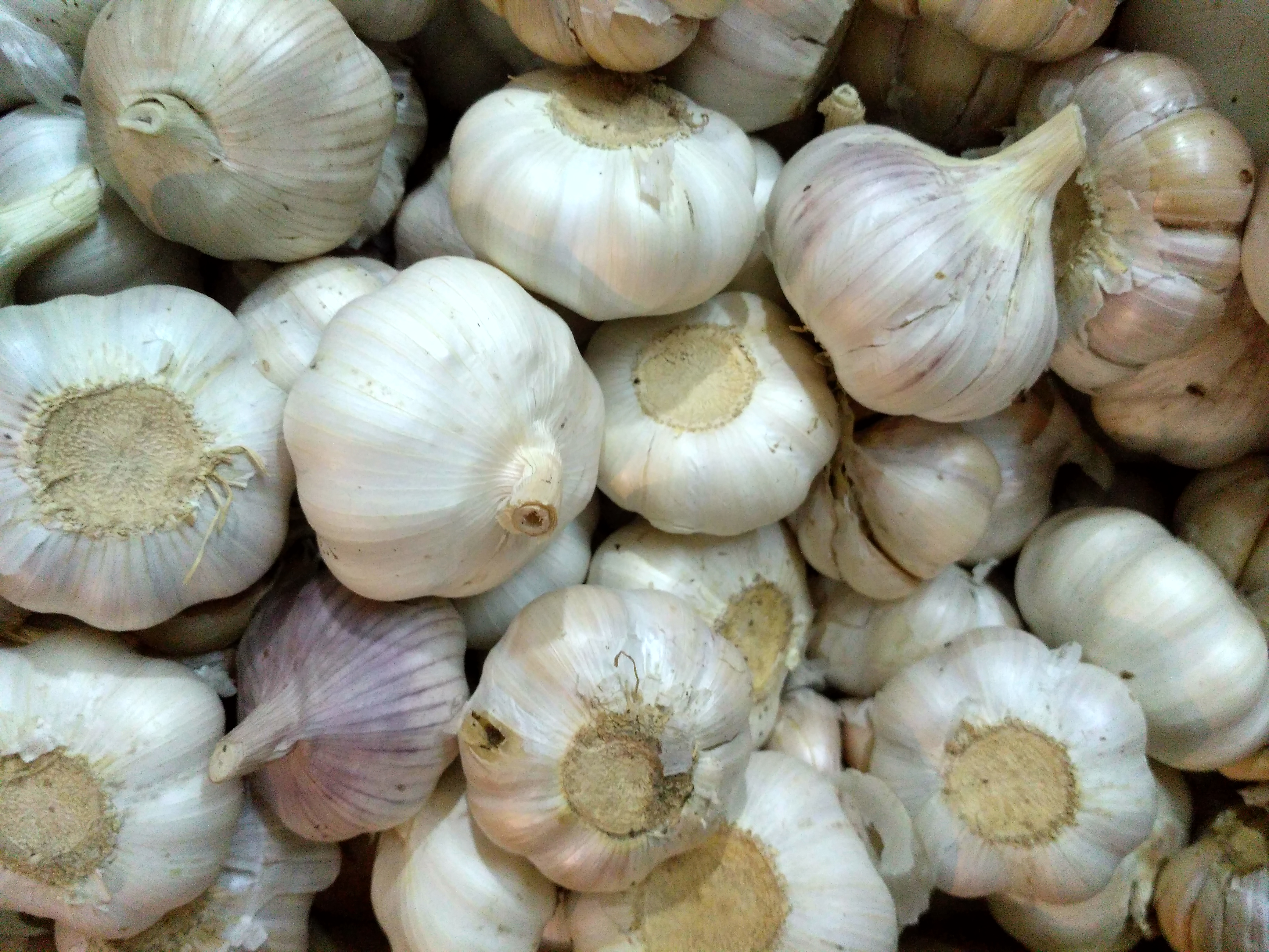 View of garlics at a grocery market in Dhaka for sale. Moghbazar Charulata Market Kancha Bazar, Dhaka, Bangladesh. (28.09.2018.)